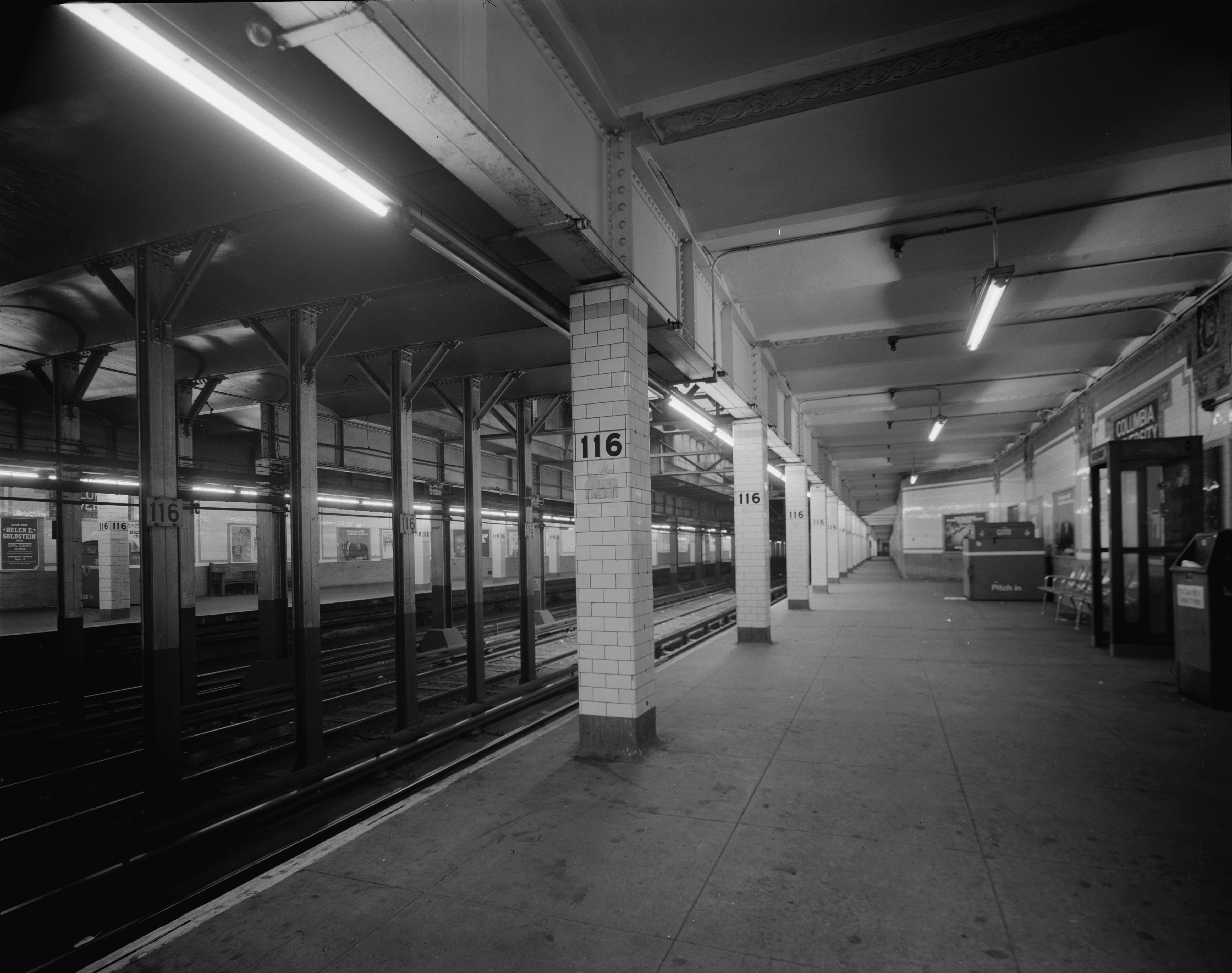 Downtown platform of the 116th St. & Broadway subway station in 1978.